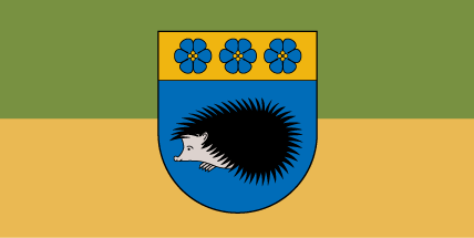 Flag of the Latvian city of Viļaka.